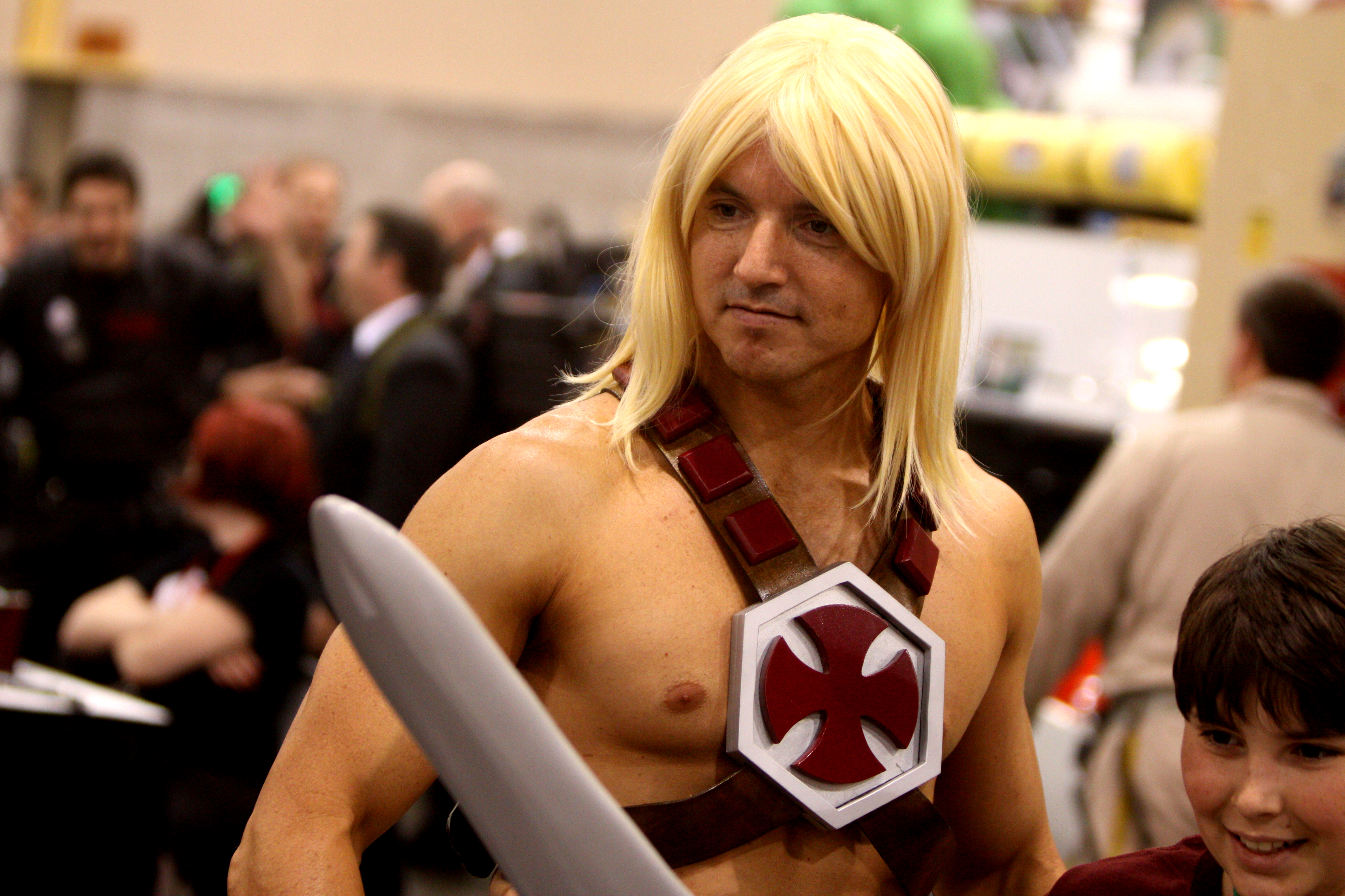 He-Man cosplayer at the 2012 Phoenix Comicon in Phoenix, Arizona.